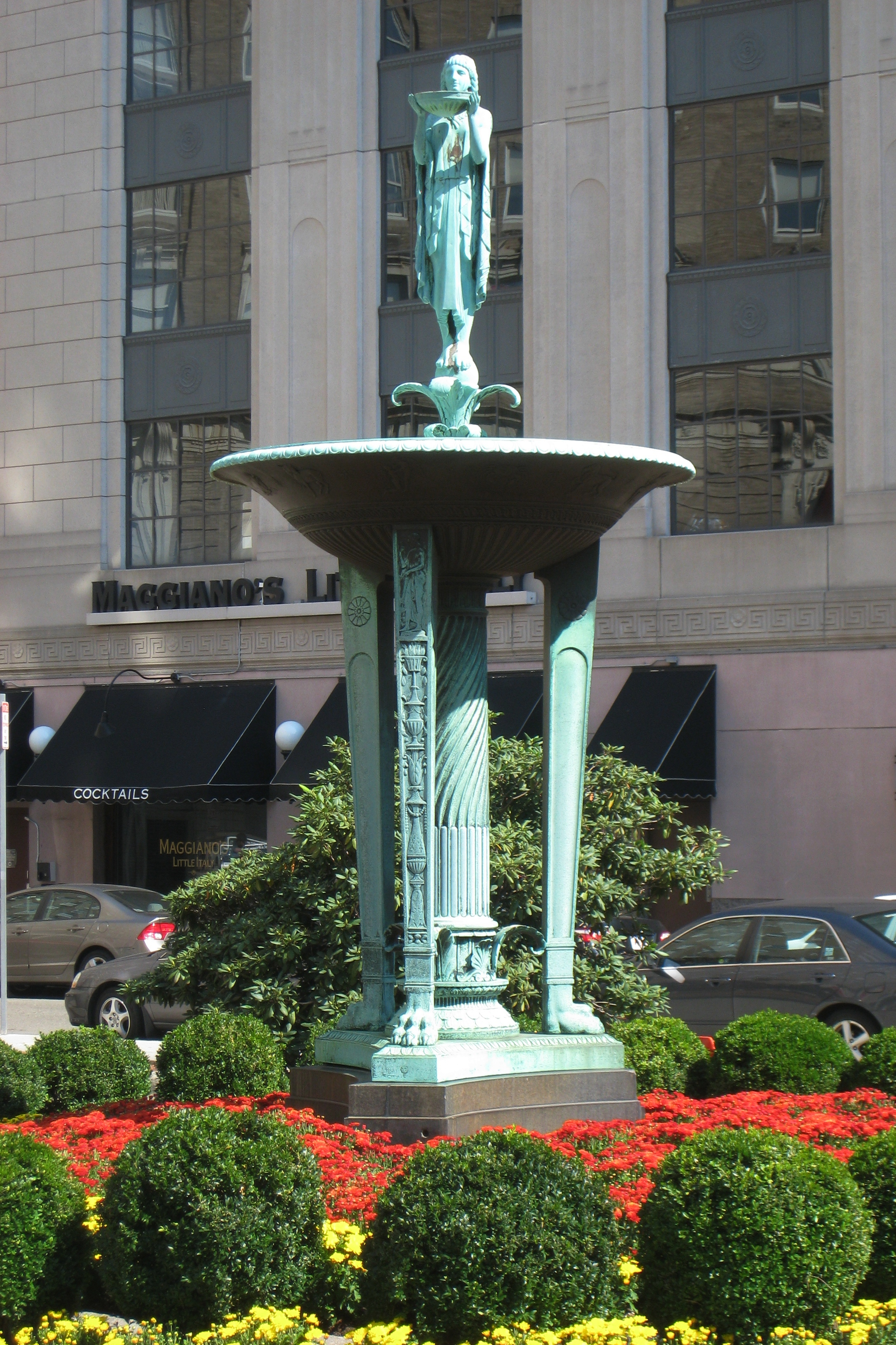 Statler Park at Park Square (intersection of Stuart Street and Columbus Avenue), Boston, Massachusetts, USA. The statue was designed by Ulysses Anthony Ricci (1888-1960), and given to the city in 1930 by the Hotel Statler Company, Inc. (Its successor is the Park Plaza Hotel.)